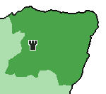 Image showing the location of Corgarff Castle within Grampian, Scotland